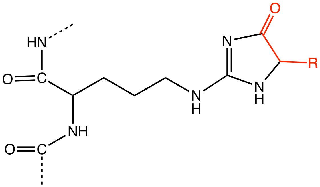 Structure of methylglyoxal-derived hydroimidazolone